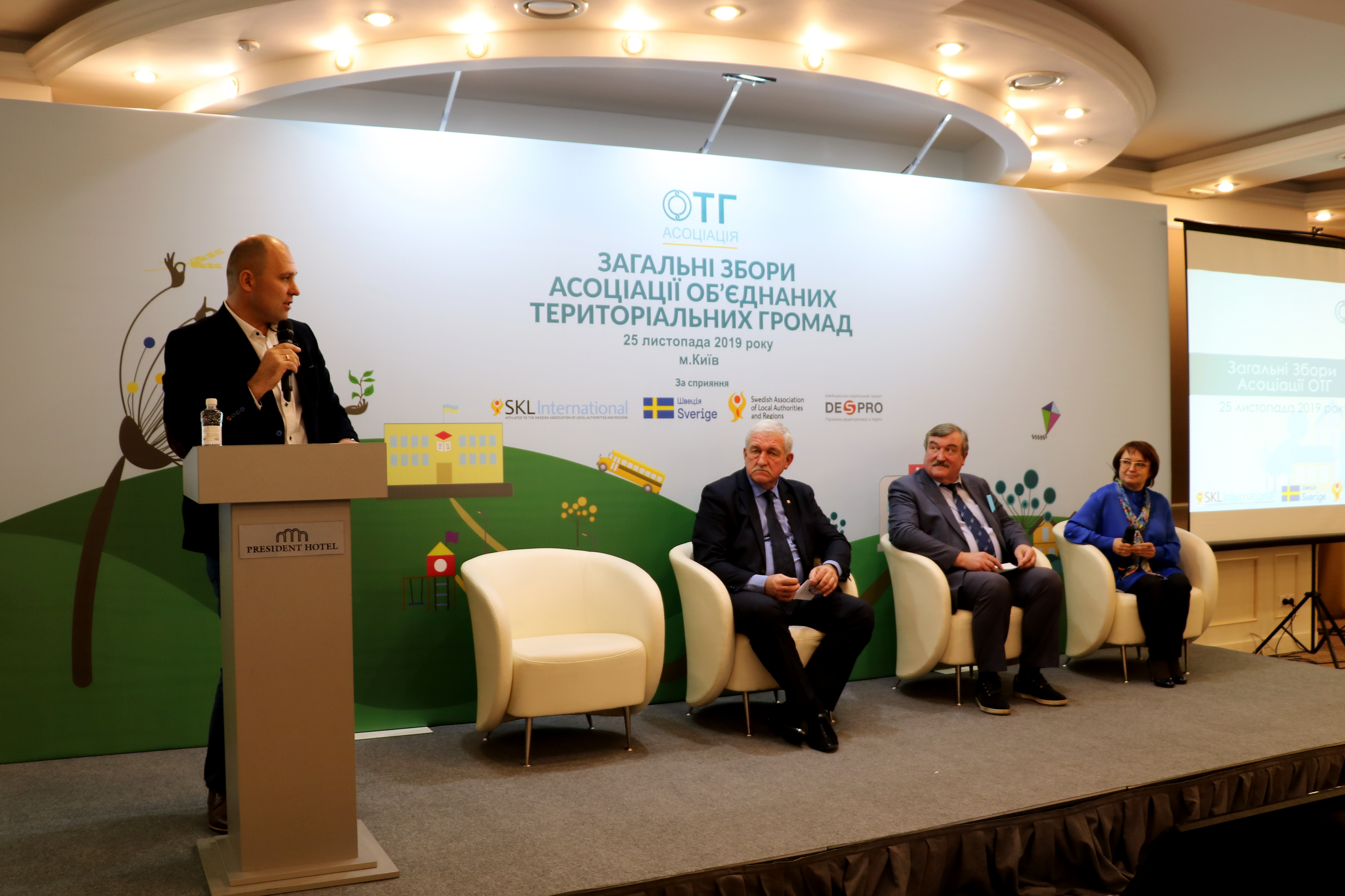 Загальні Збори Асоціації ОТГ (25.11.2019)